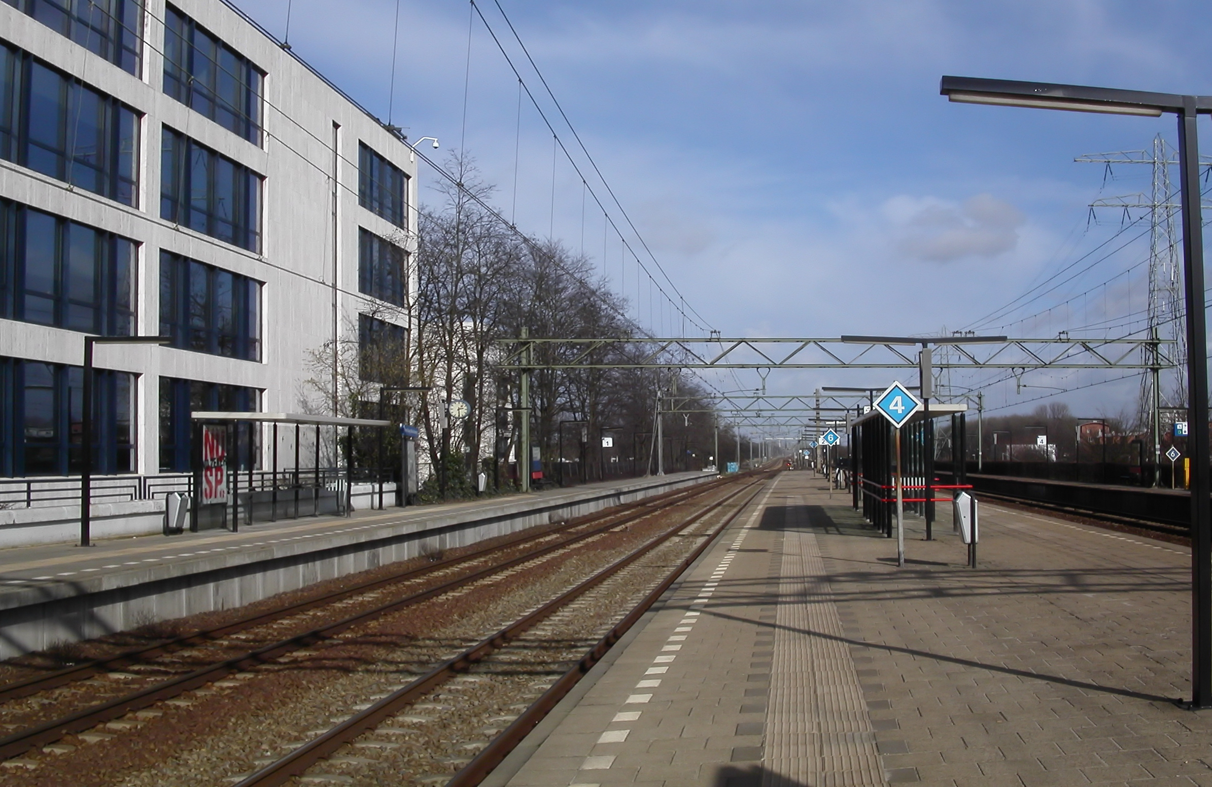 Train station Den Haag Mariahoeve seen from perron 2